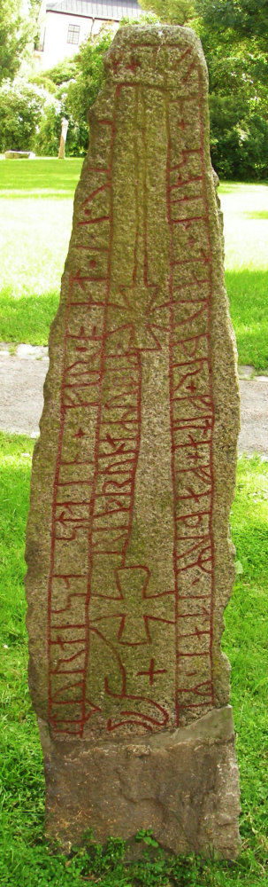 runic stone Upplands runinskrifter 896